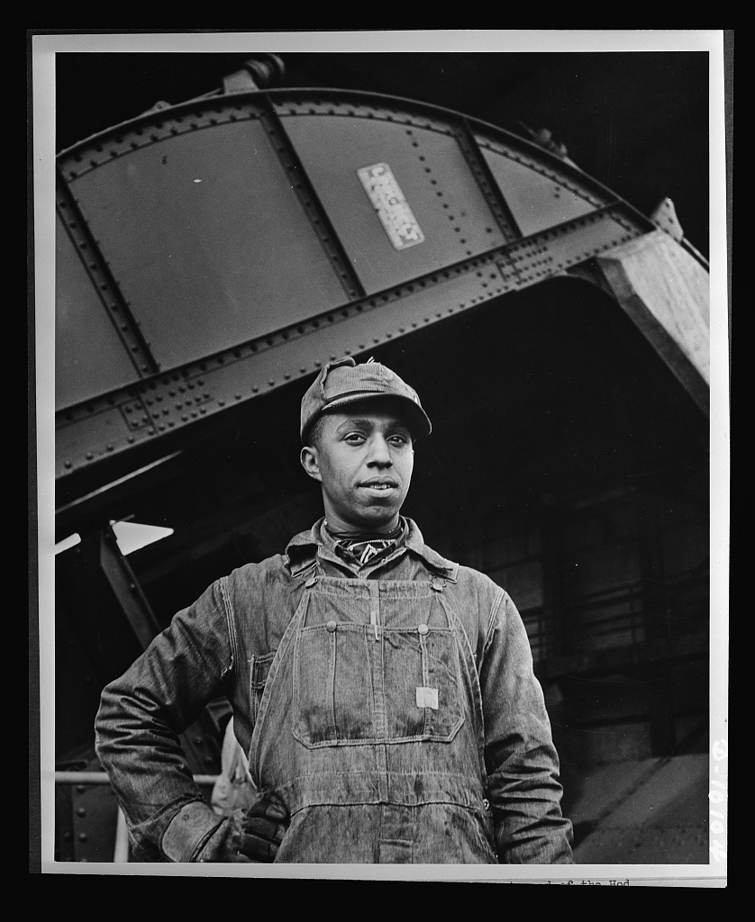 Job steward of the Hod Carriers' local union on TVAuthority